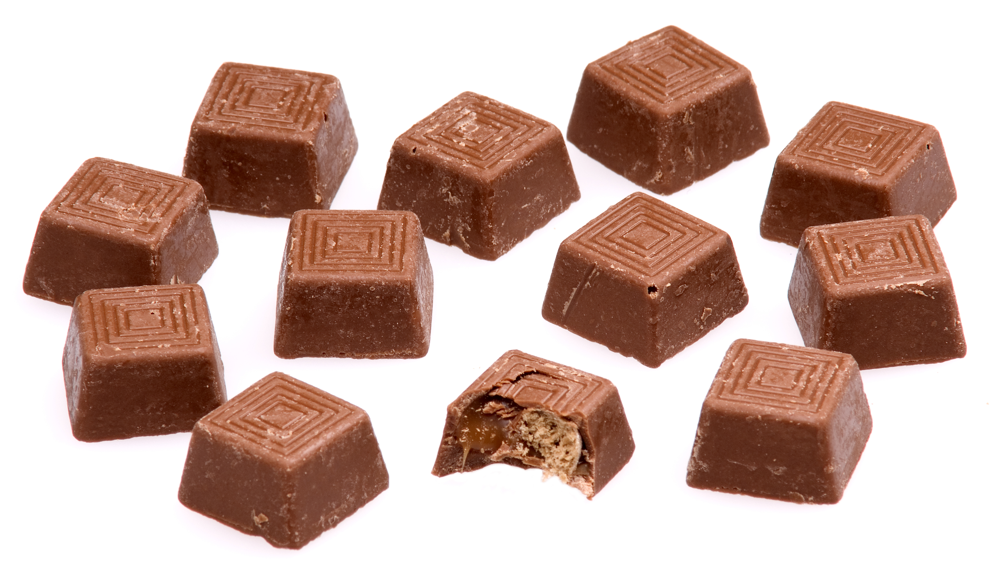 An array of Nestle Munchies candies.